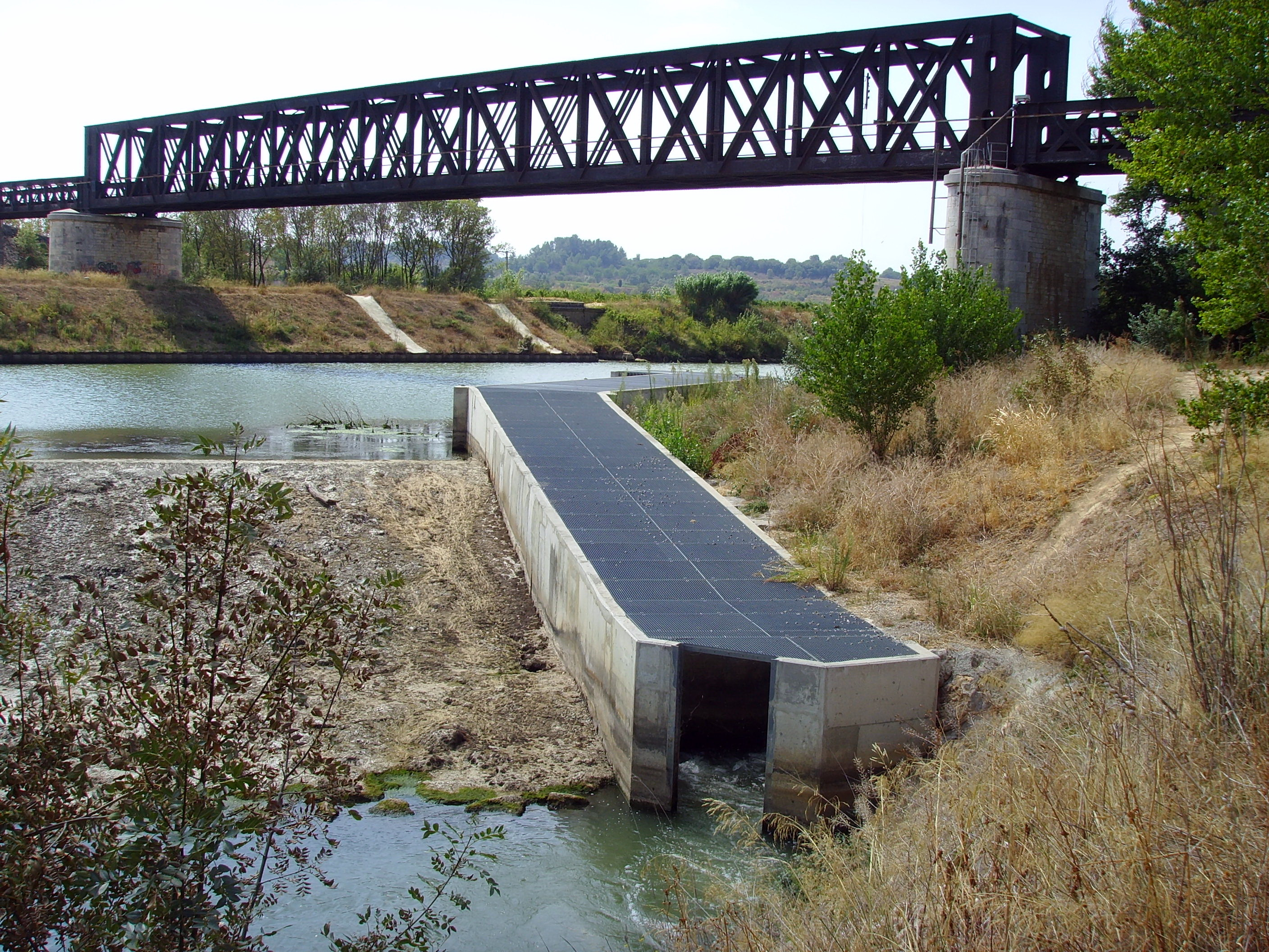 Fish pass: River Aude, near the confluence of Canal de Jonction (Gailhousty, near Sallèles d'Aude, France)